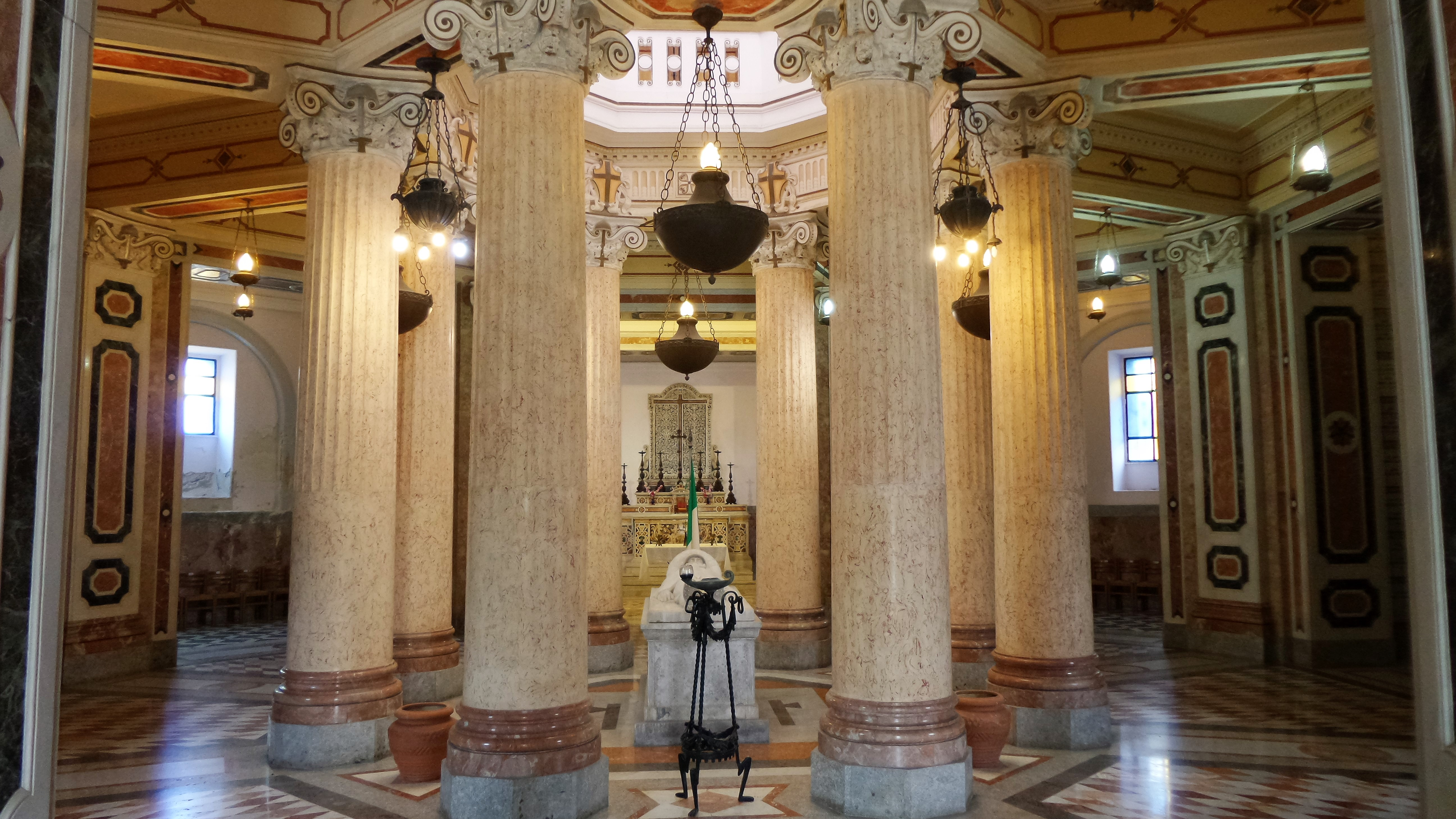 Temple Christ the King (Messina), Memorial of WWI and WWII